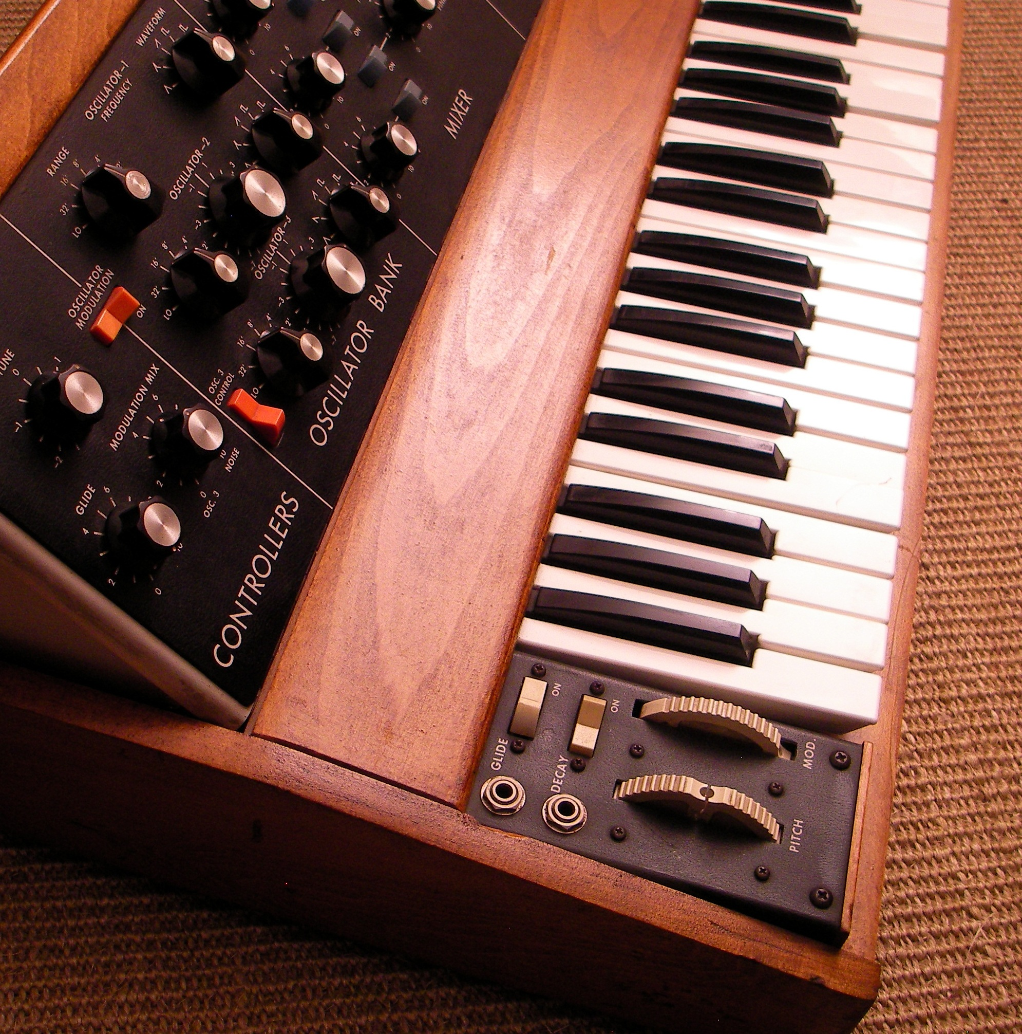 Minimoog - pitch & modulation wheels, etc. - left angle view